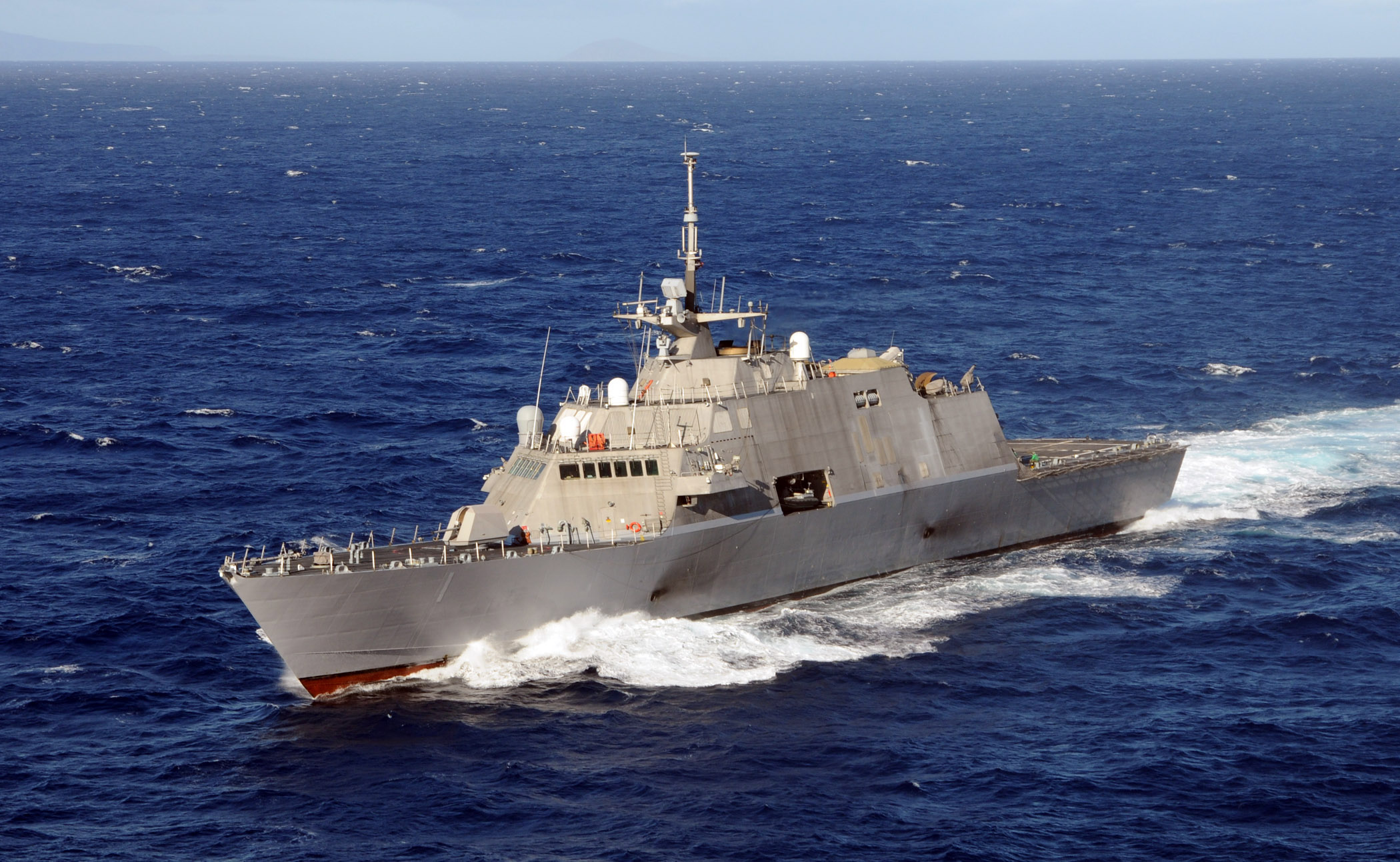 PACIFIC OCEAN (July 18, 2010) The littoral combat ship USS Freedom (LCS 1) operates off the coast of Kauai, Hawaii, during the at-sea phase of Rim of the Pacific (RIMPAC) 2010, the world's largest international maritime exercise. (U.S. Navy photo by Lt. Ed Early/Released)